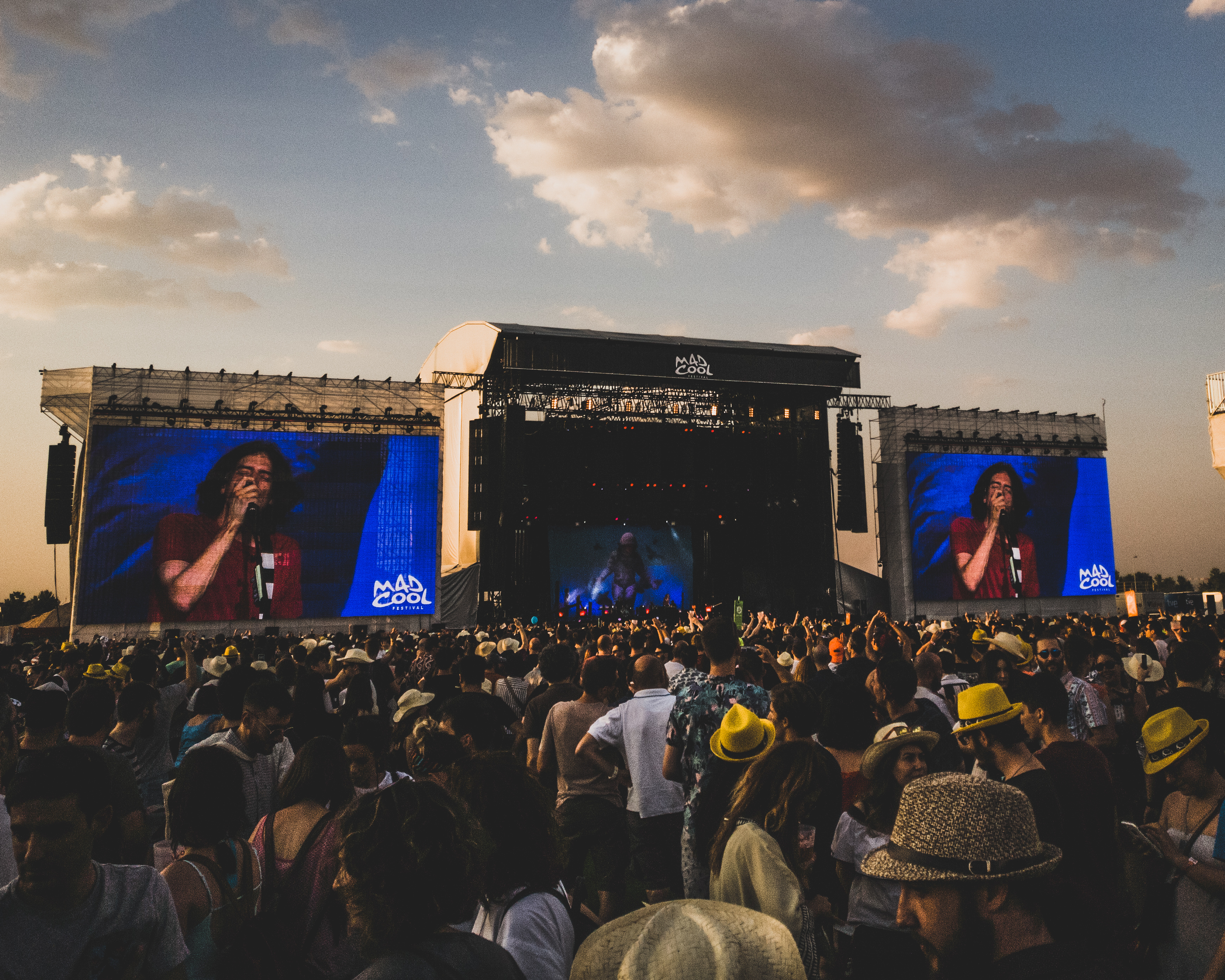 Madcool 2018